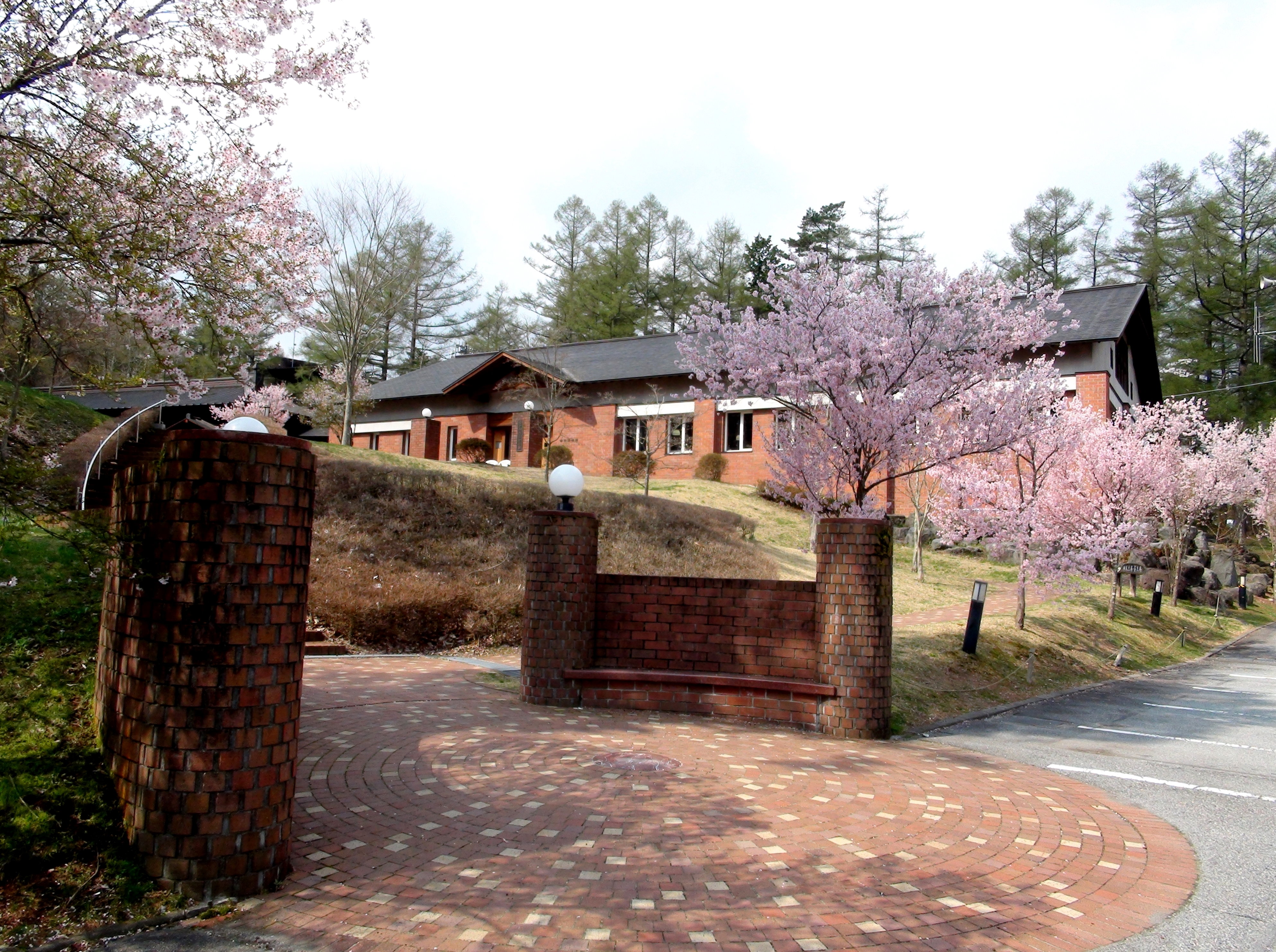 Yamanakako public library for the people's ceativity